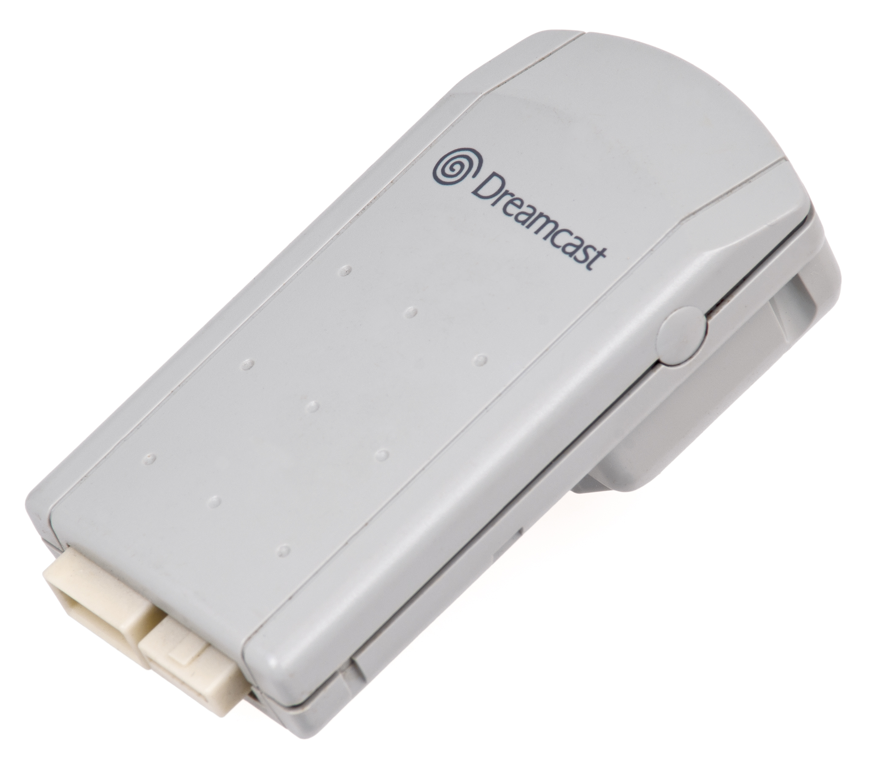 A Jump Pack for the Dreamcast. It attached to the bottom slot accessory slot on the controller and provided rumble feedback.